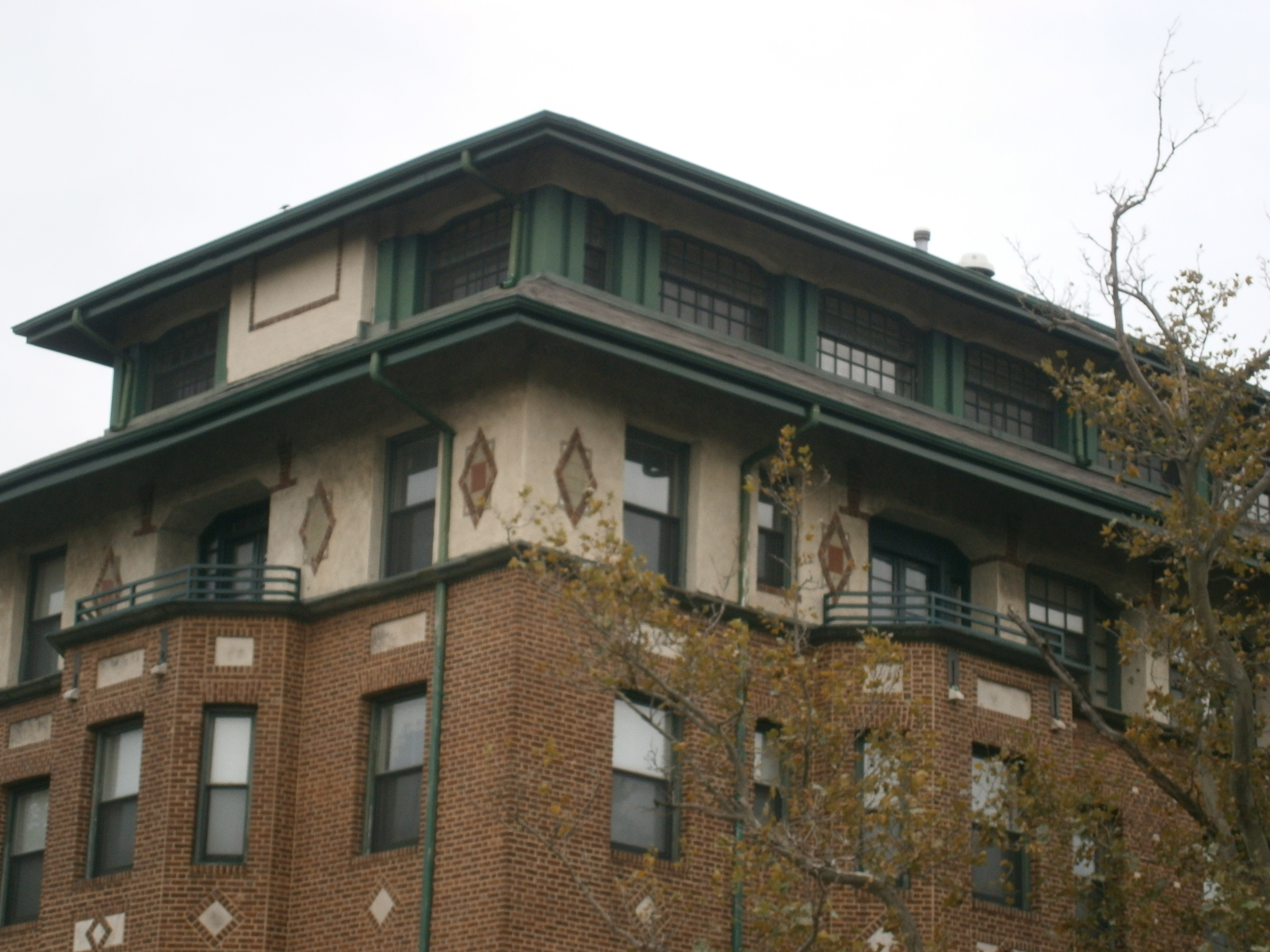 Fairmount Apartments in the Bergen Section of Jersey City. NRHP once the home of Father Divine